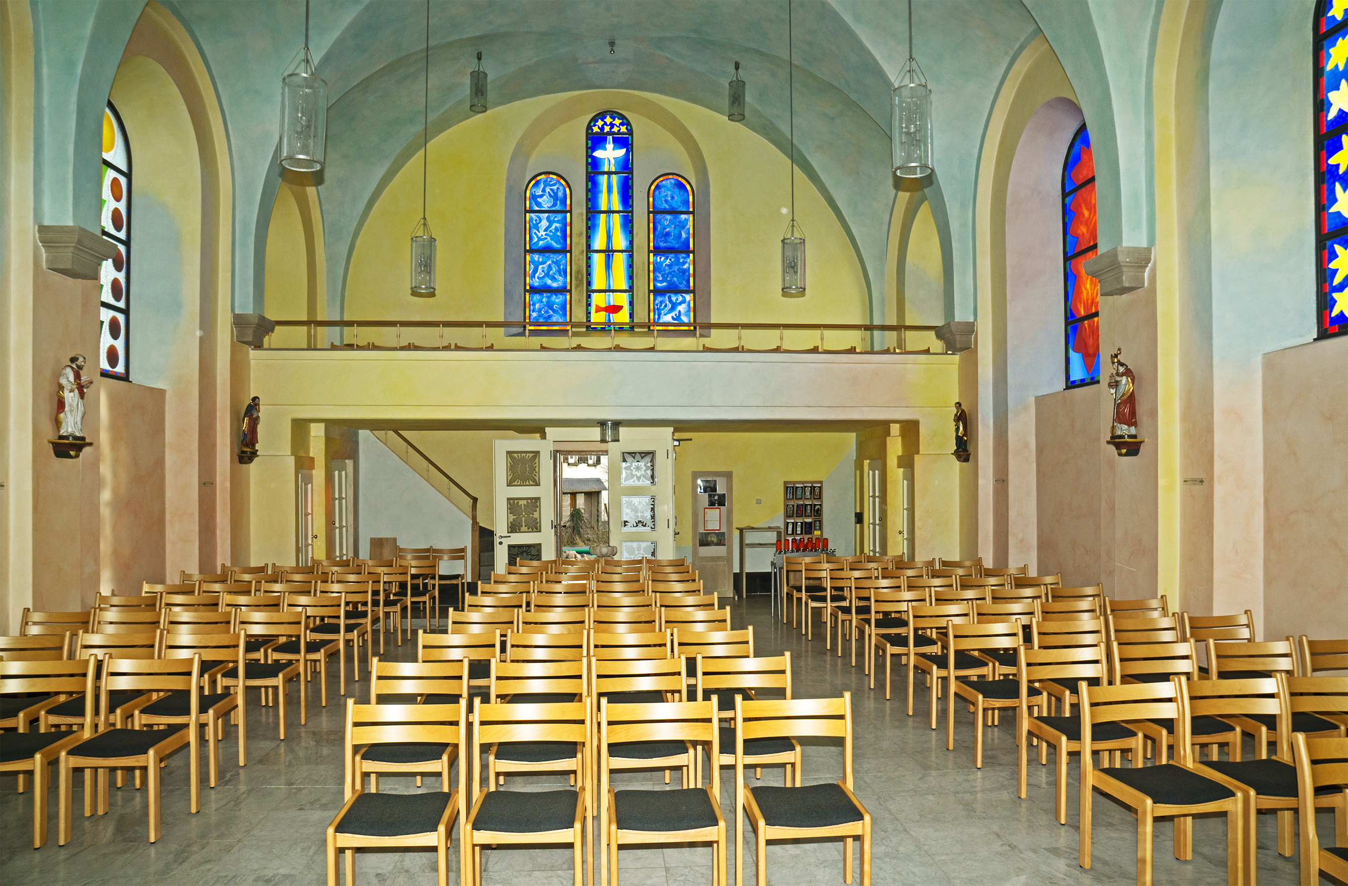 Church of Insenborn